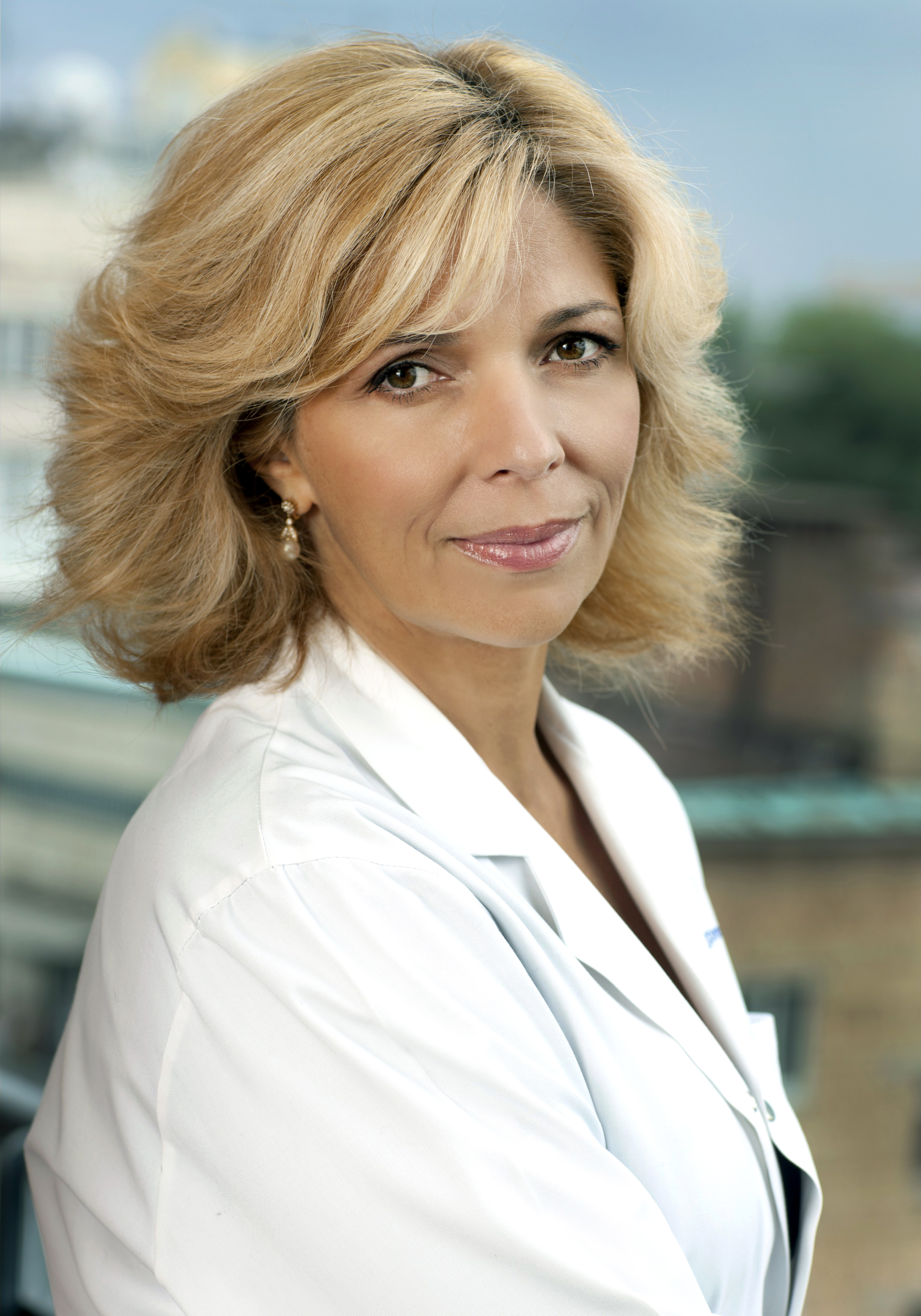 Olga Bogomlets - singer and doctor.